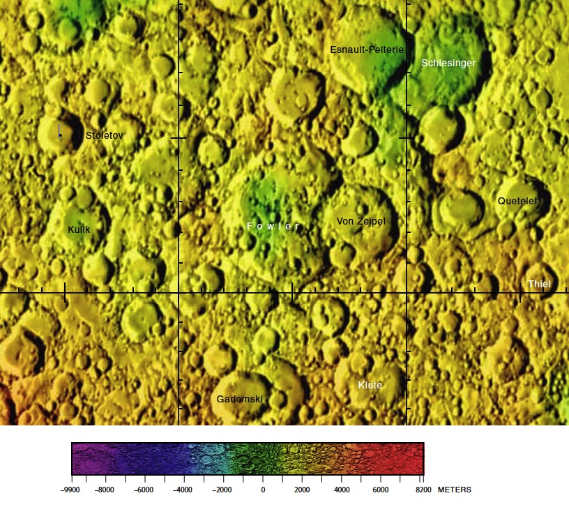 Part of the USGS Far side lunar chart used for the presentation